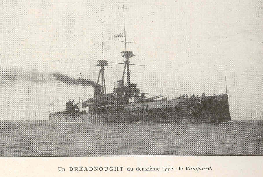 Subject: Vanguard (Battleship), Battleships Tag: Vessels